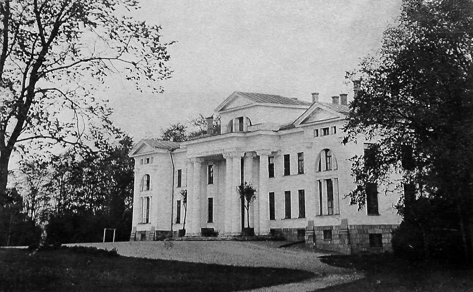 Järvakandi manor house